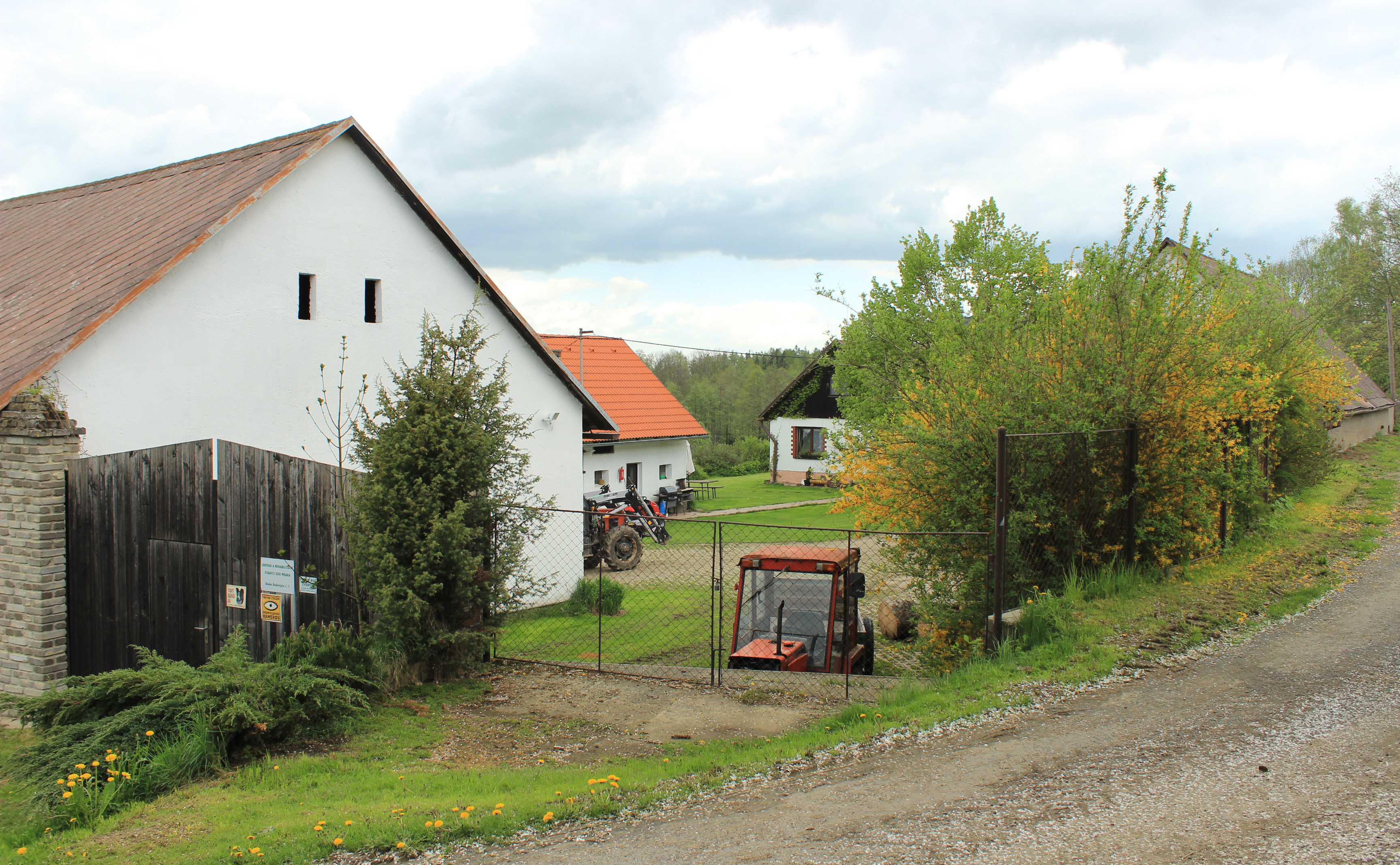 A farm for Przewalski's horse in Dolní Dobřejov, part of Střezimíř, Czech Republic.